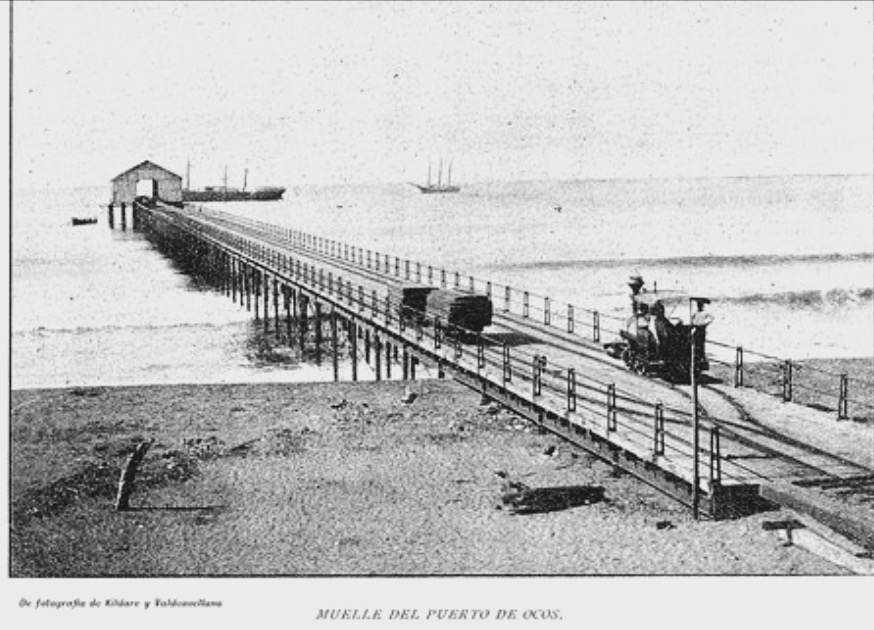 Revista Guatemala Ilustrada, 1892.